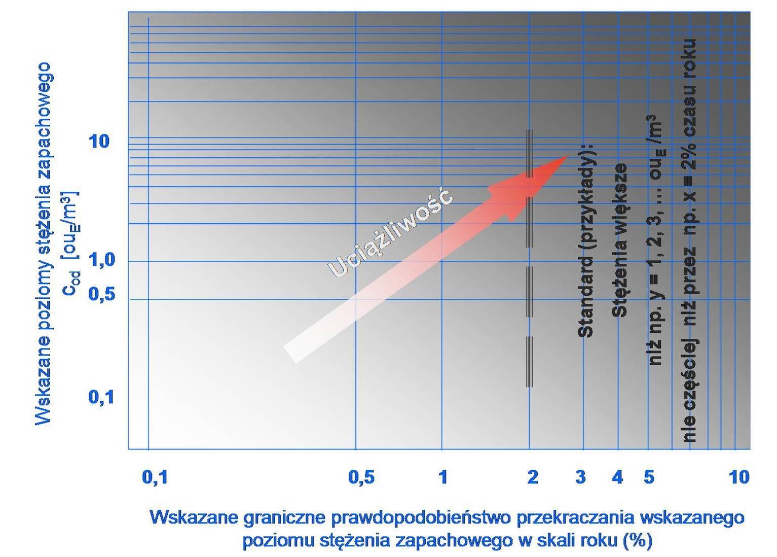 Odour Air Standards, fig. 2